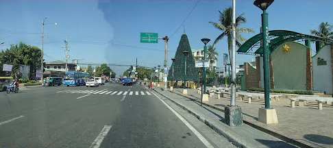 C4-Road in Navotas City